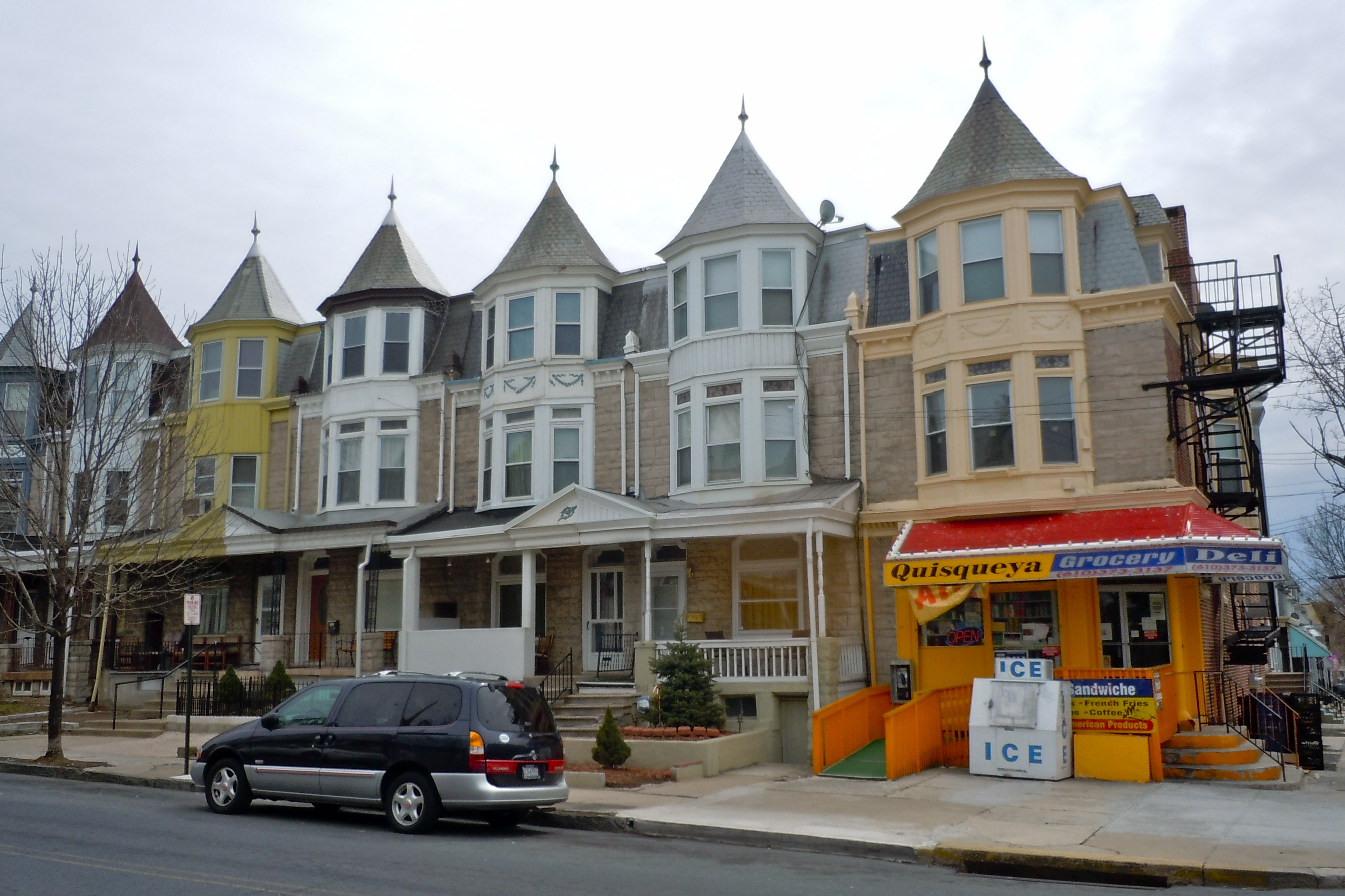 Queen Anne Historic District on the NRHP since November 12, 2004. The HD is roughly bounded by Robeson Street, North 3rd Street, railroad tracks, and Clinton Street, in Reading, Berks County, Pennsylvania. These houses are near the corner of McKnight and Windsor Streets.